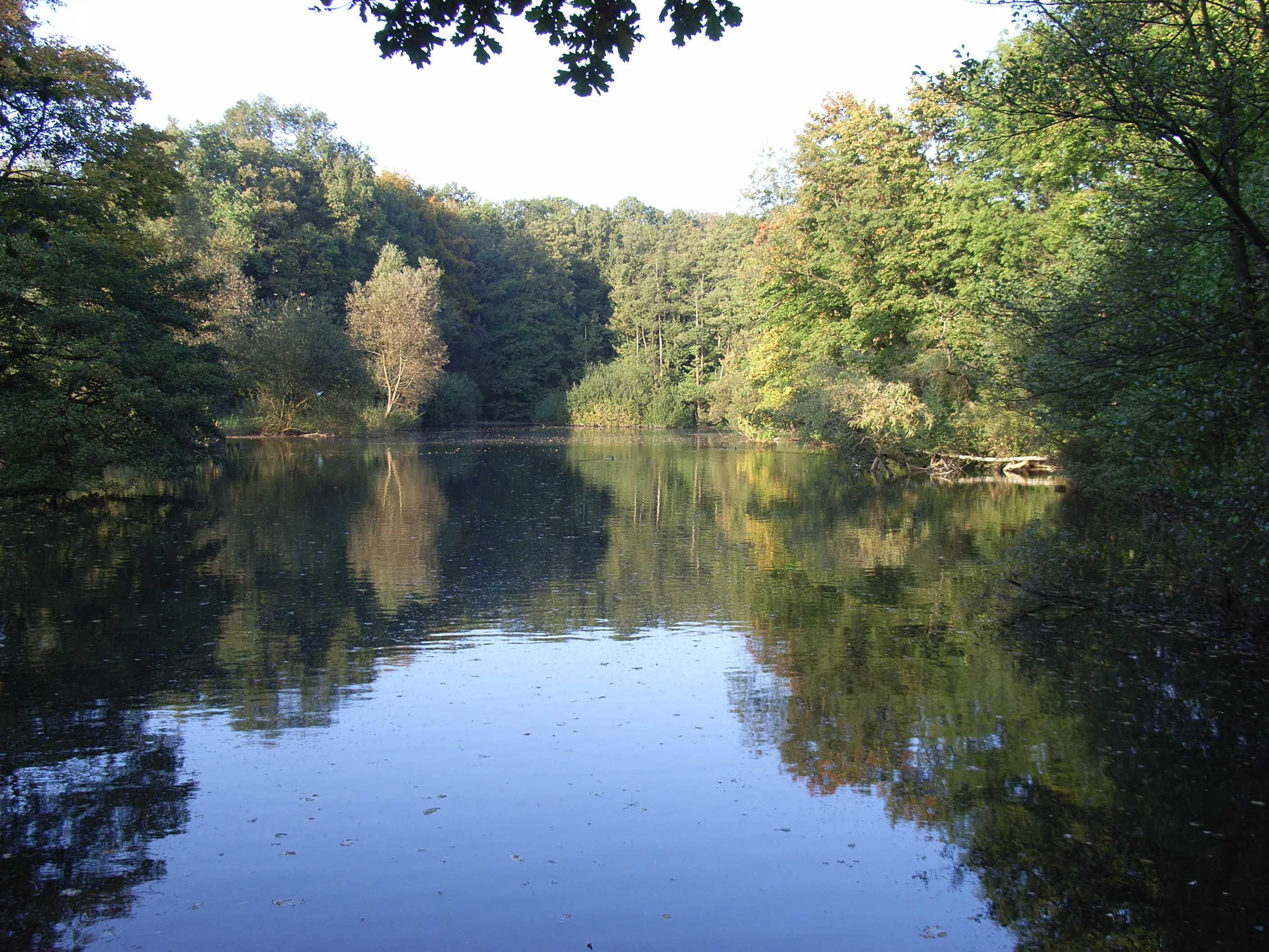 Bielefeld, Germany: “Lutterkolk”